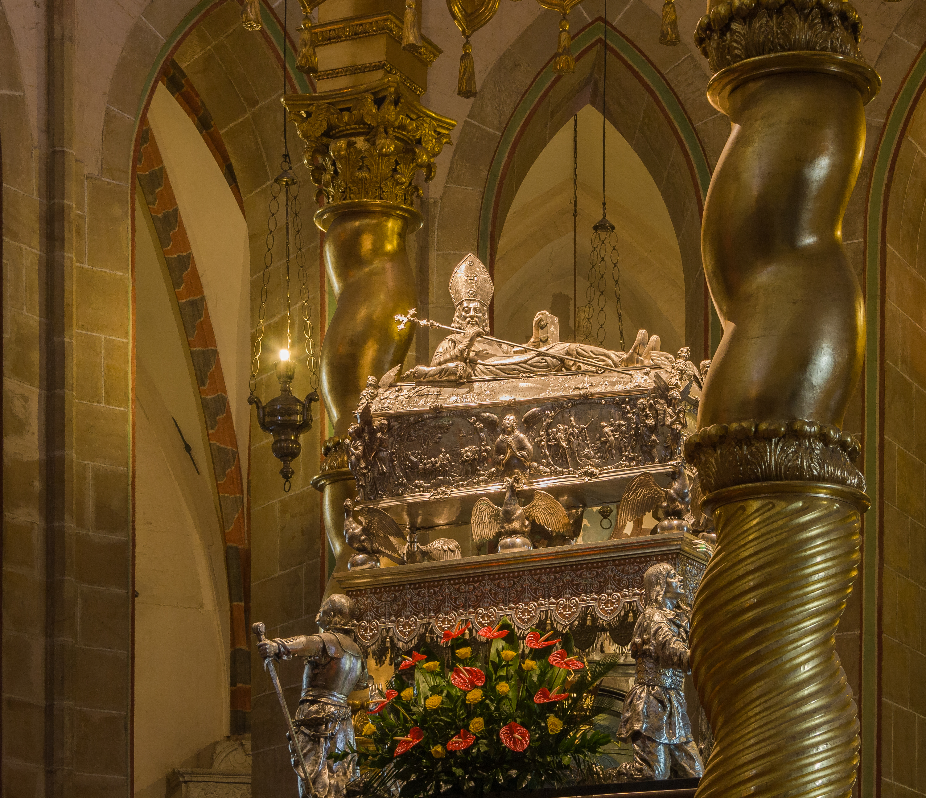 Coffin of Adalbert of Prague, Gniezno Cathedral, Gniezno, Poland